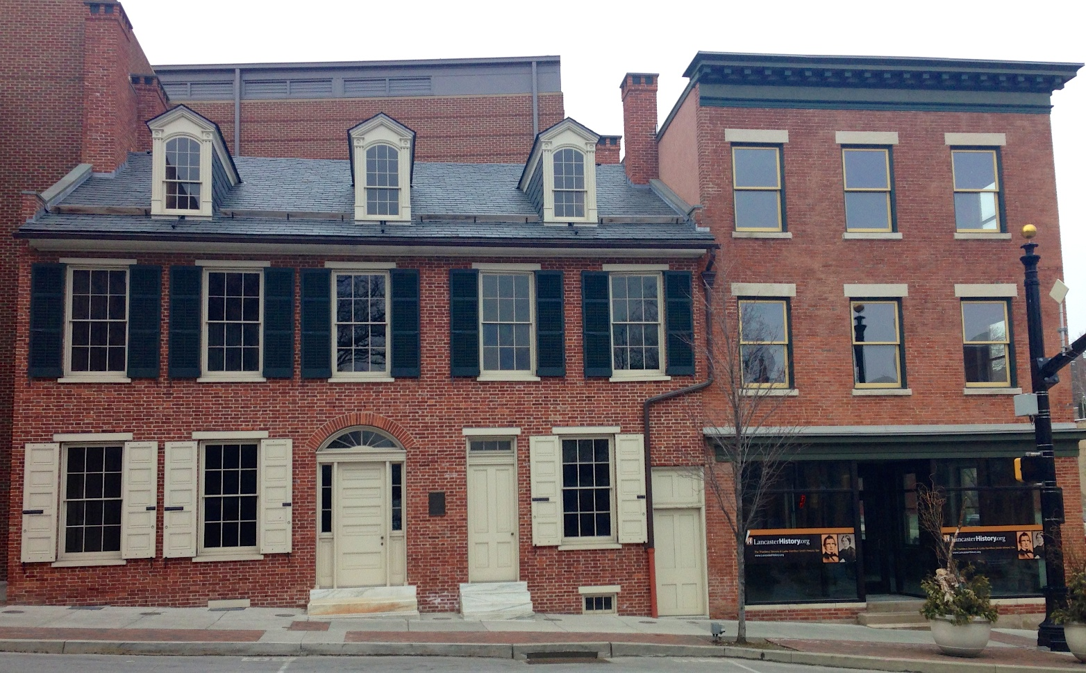 Home and law office of Thaddeus Stevens at the Lancaster County Convention Center